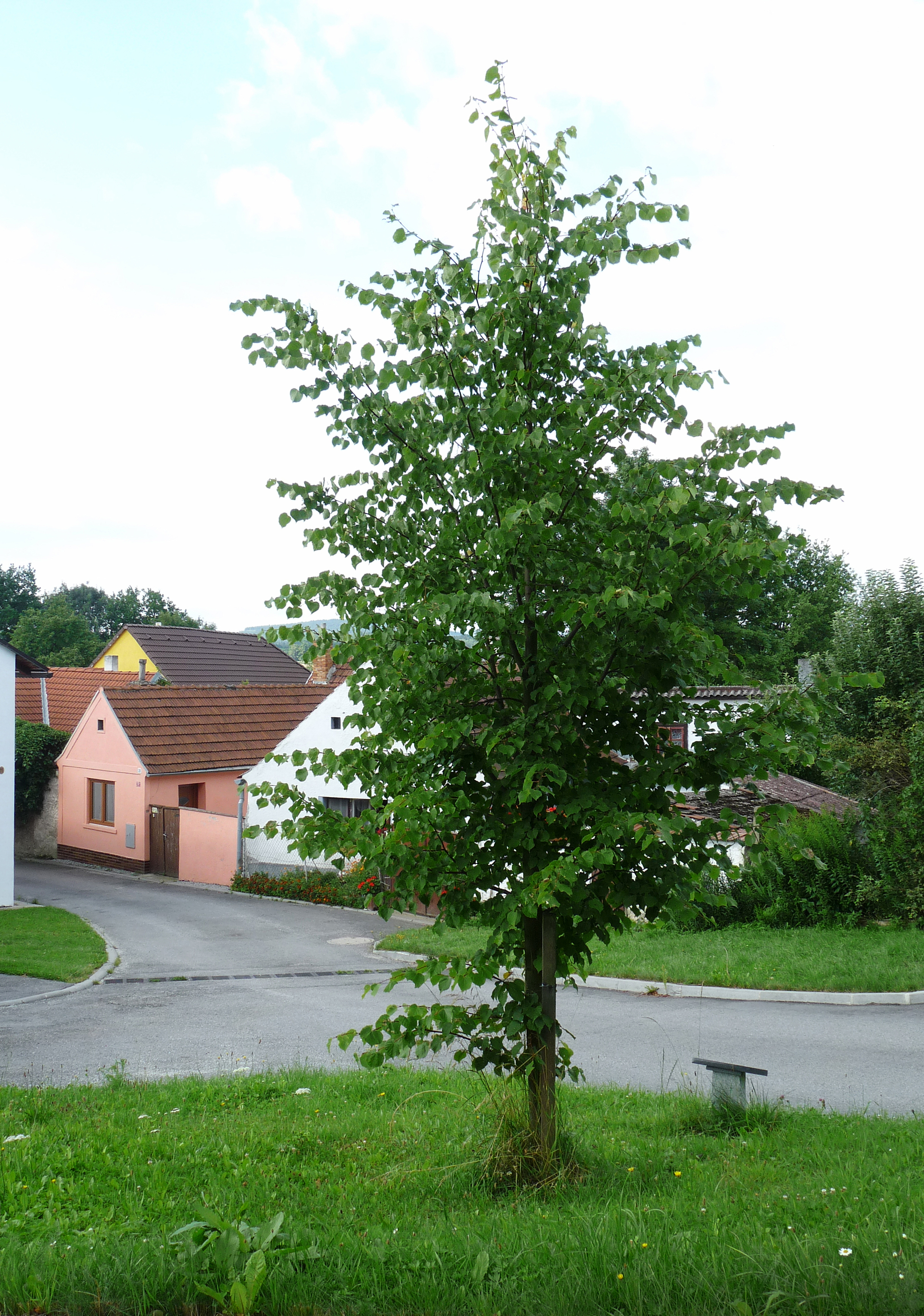 House No 46 in the village of Ostrolovský Újezd, České Budějovice District, Czech Republic. The tree was planted on 28 September 2006 by hetman Zahradník